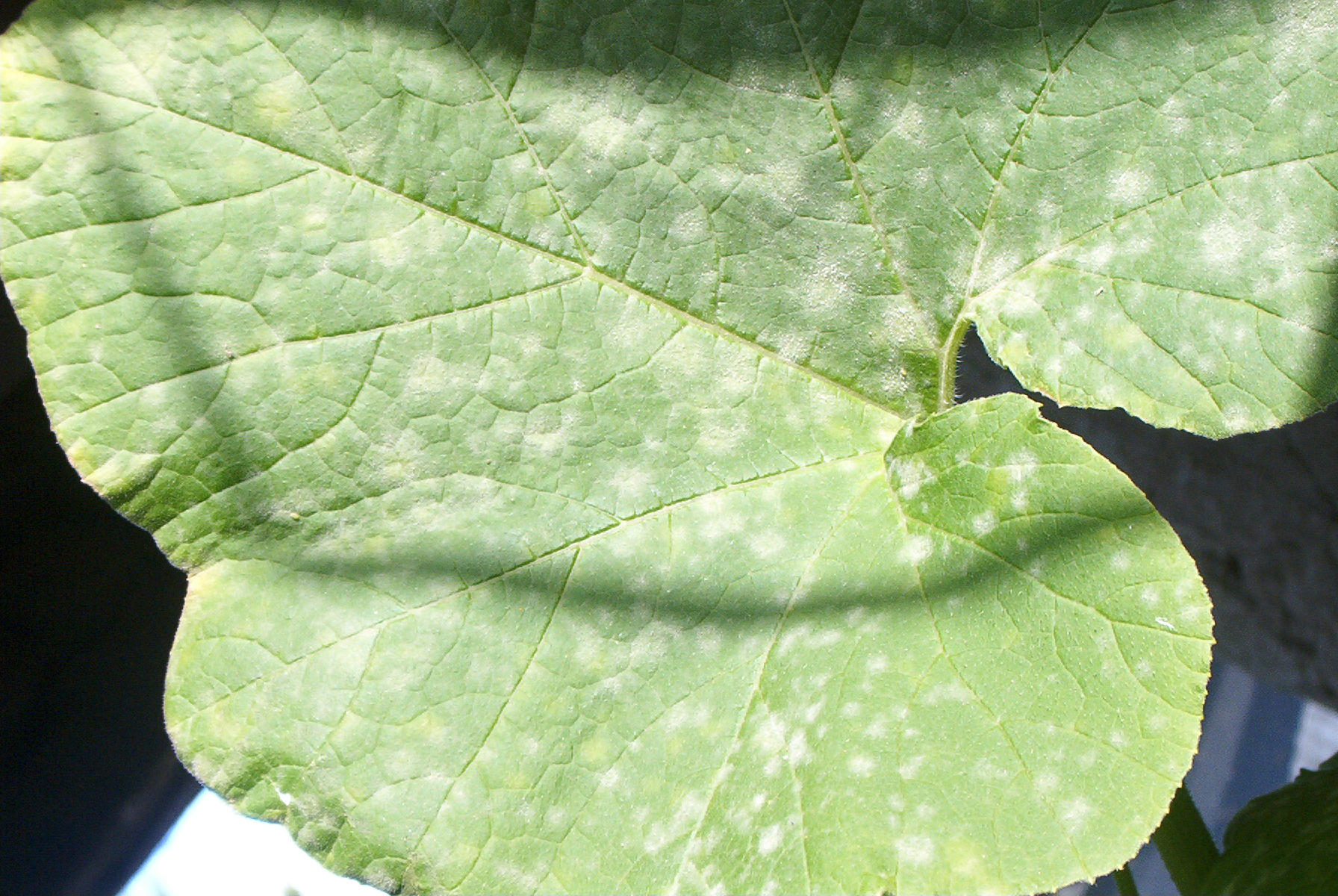 Cucurbita maxima commercial seed name "Zapallo Redondo Gris Plomo" - disease A picture 2. Probably a fungi. It appeared after 15 days of cloudy and rainy weather. Fortín Olavarría, partido de Rivadavia, provincia de Buenos Aires, Argentina.